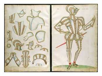 Design for armor of Henry, Lord Scrope